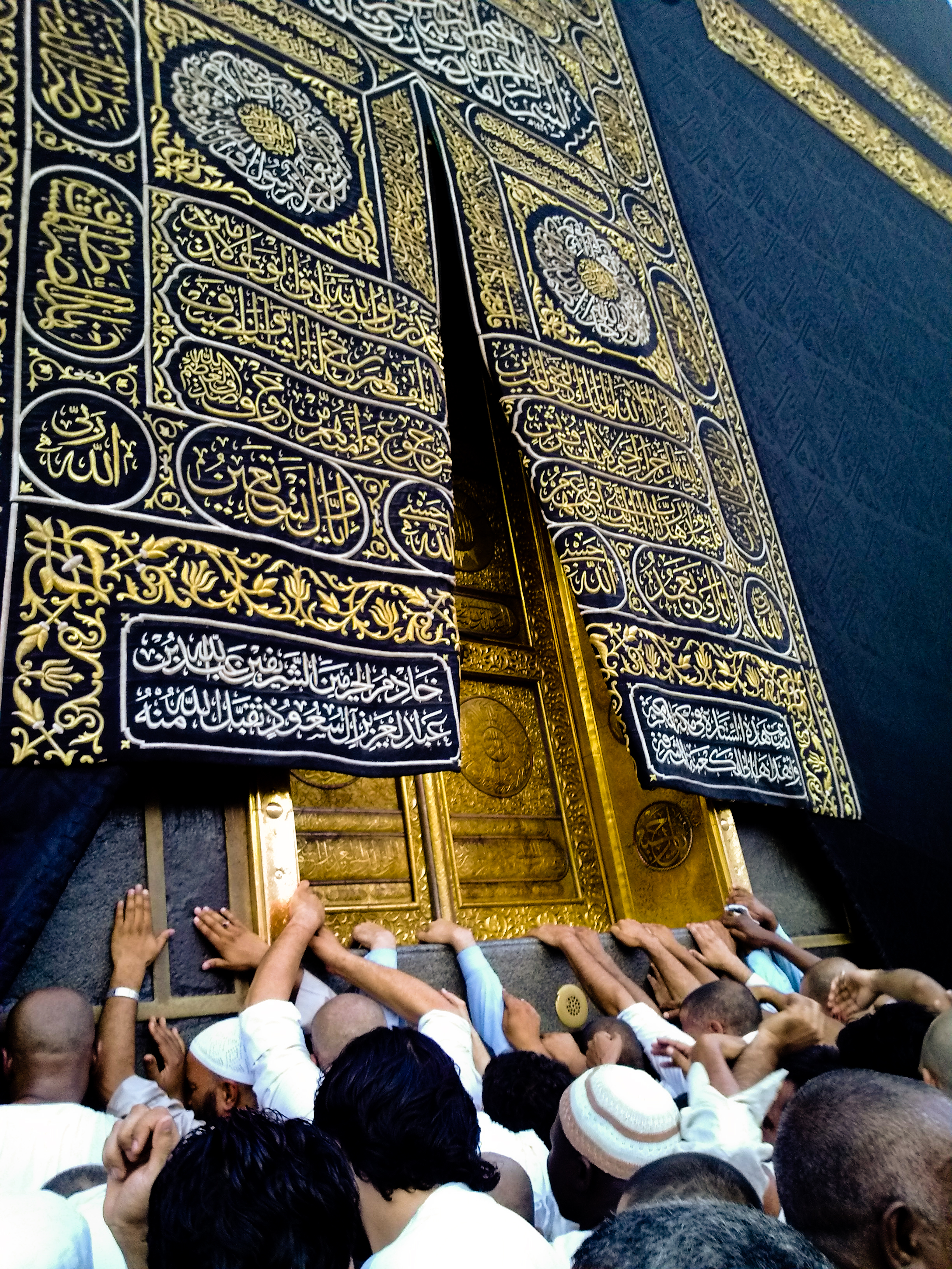 The gilded entrance to the Kaaba is set two metresoff the ground on the north-eastern wall of the Kaaba.